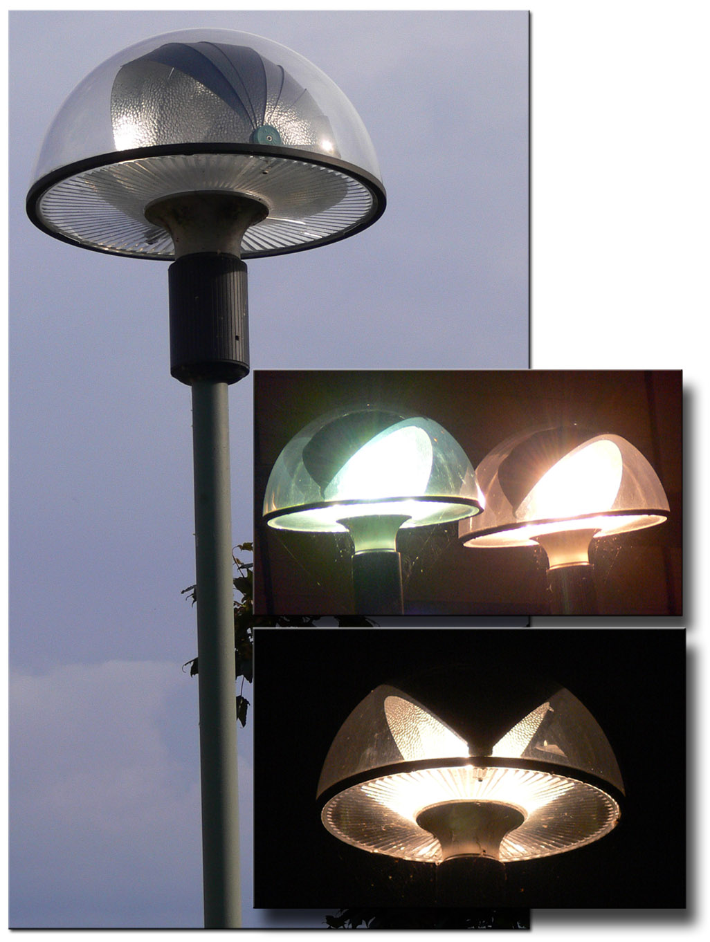 Lamp with reflector adaptable and adjustable allowing for improved lighting energy savings of at least 50%, using a mirror and cache, while the traditional ball lamps lose 80% of their light to the space contributing to light trespass and light pollution. (Photo taken on the campus of the University of Canterbury, Kent, south-east of the United Kingdom). Lamps too powerful white light, however, can continue to attract and trap insects and wildlife disturbance (see cobwebs). These lamps are ideal for limiting light trespass in parts of nearby buildings.